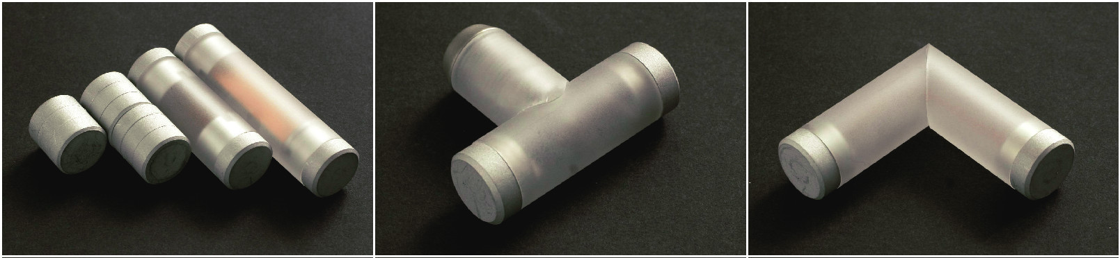 Simple elements